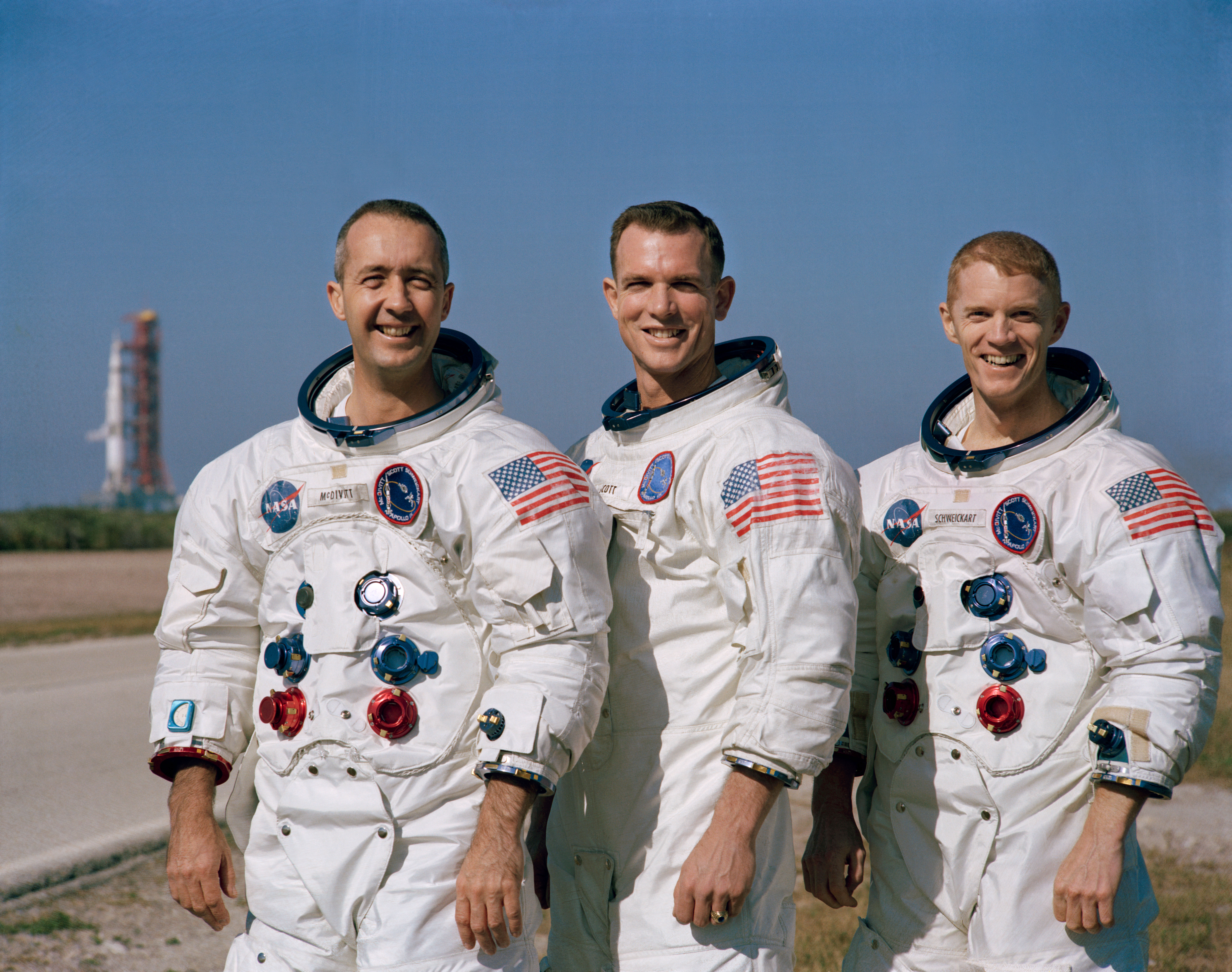 The crew of Apollo 9 - James A. McDivitt (CMDR), David R. Scott (CMP) and Russell L. Schweickart (LMP)